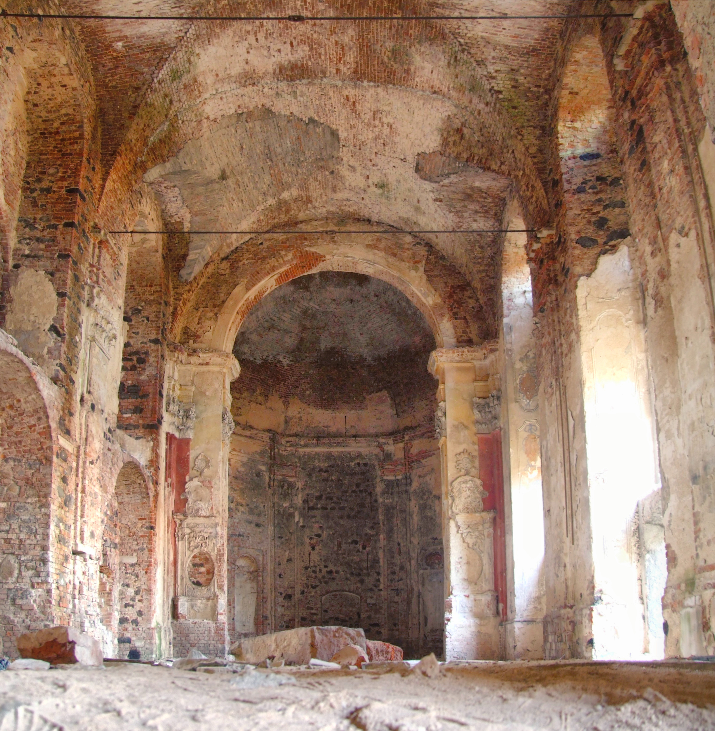 A former chapel in the ruined monastery (earlier: a castle) of Otyń, Poland